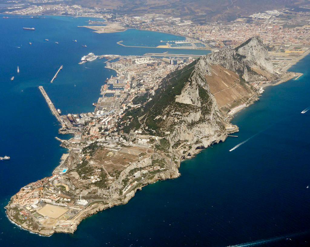 An aerial photo of Gibraltar after take-off from the Rock, looking north-west towards San Roque.